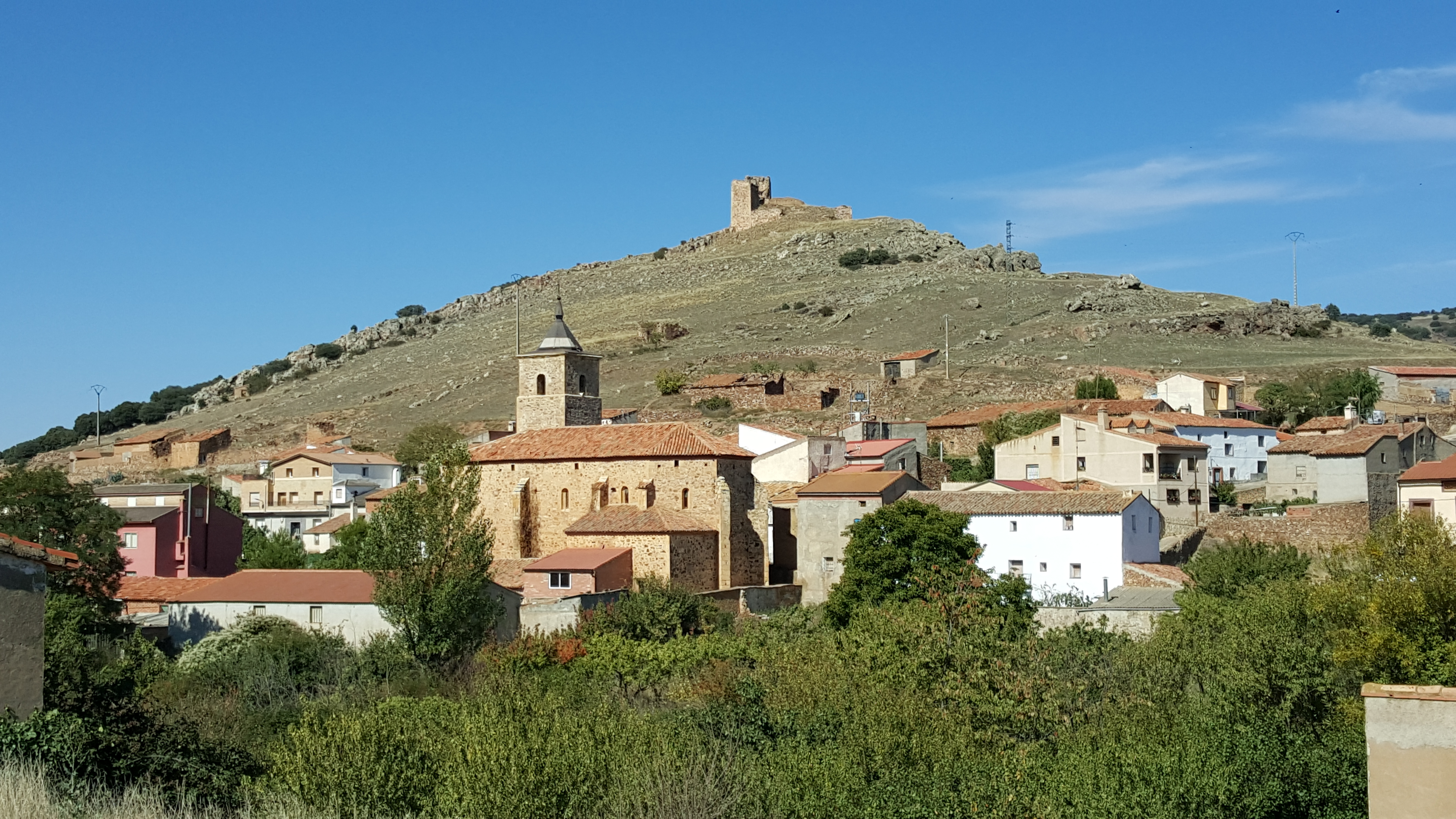 Santed, Zaragoza, Spain